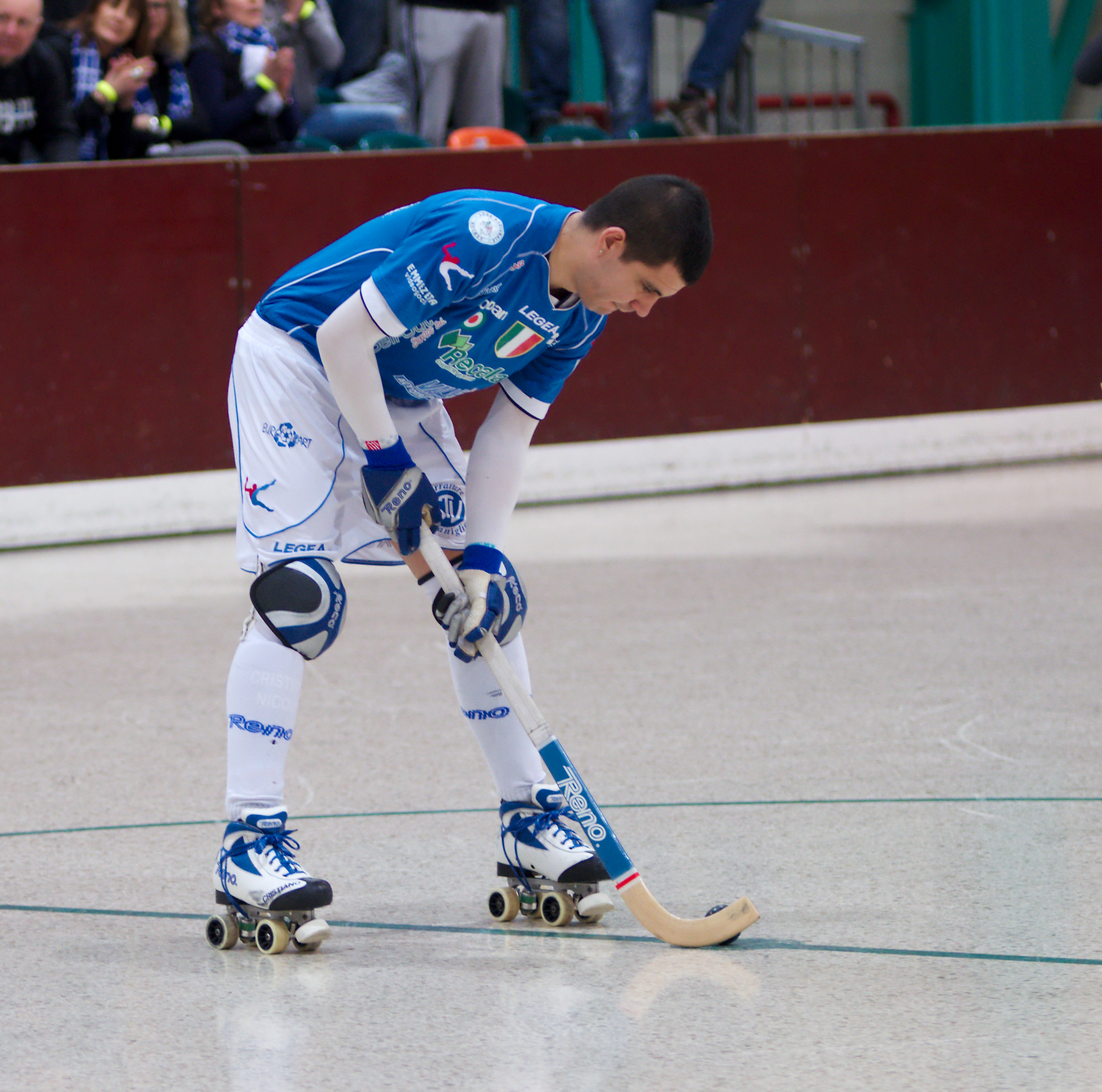 Rink-Hockey Euroleague 2012-2013 - Genève vs Hockey Valdagno